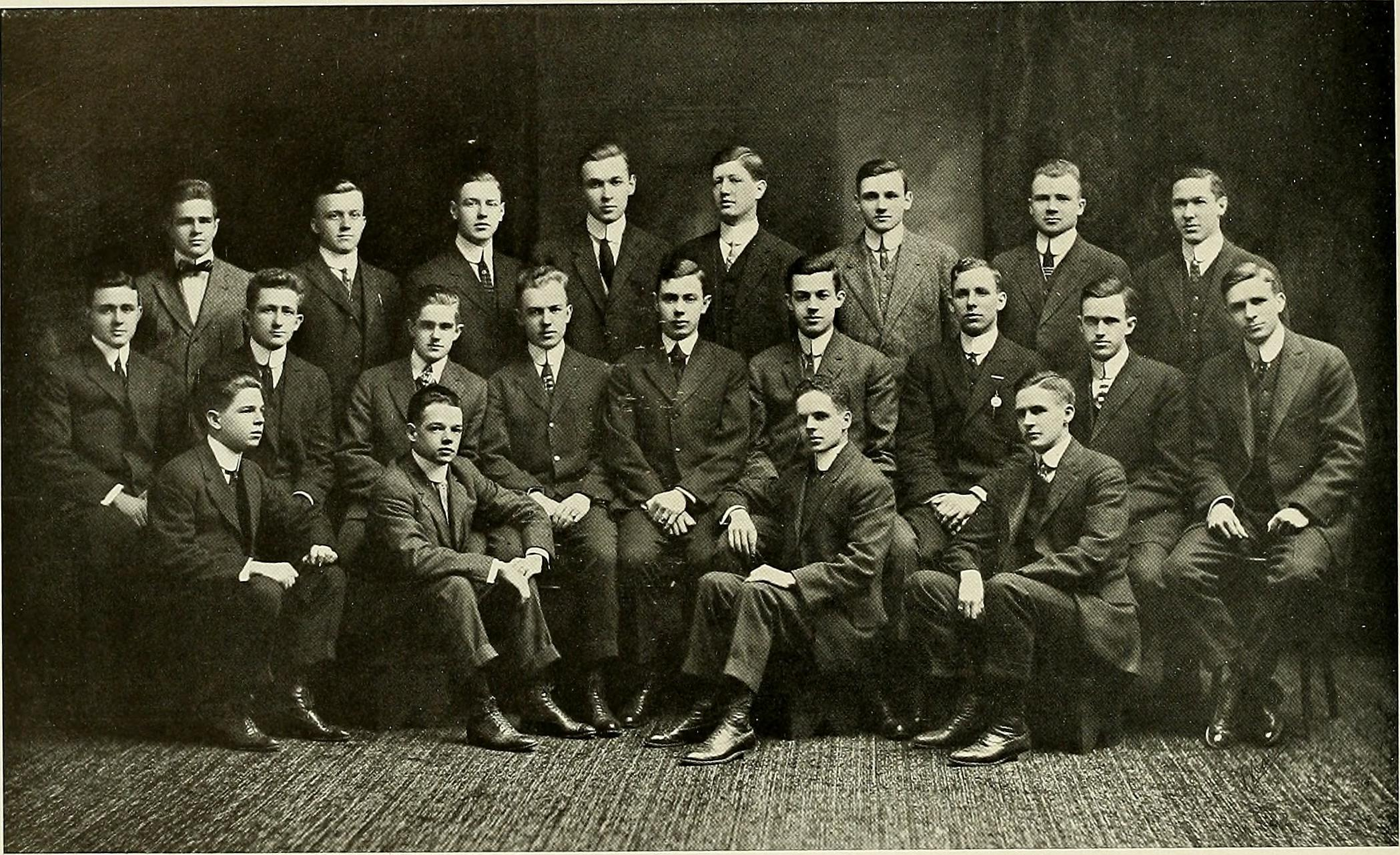 Title: Halcyon Year: 1914 (1910s) Authors: Subjects: Phi Sigma Kappa's Phi Chapter, 1914, from Swarthmore College -- College Yearbooks Publisher: Swarthmore, Pa.: Swarthmore College Text Appearing Before Image: ar DuLUTH Superior Utah Milwaukee Harvard Graduate Schools Omaha Oxford University Cleveland Colorado Chesapeake INIontreal Rhode Island Philadelphia Maine AlbanyCaliforniaWestern CanadaTrentonMontanaPuGET Sound Page One Thirty 01)1 t)tgma i^appa iFraternttp Founded at Massachusetts Agricultural College, 1873 Fraternity Organ—The Signet tRATERNiTY Color—Silver and Magenta Red Fraternity Flower—Red Carnation The annual banquet of the chapter was held at the Hotel Walton March 8, 1913 Pf)i Chapter MDCCCCXni Warren Wallace Weaver Kenneth Vernon Farmer William Mark Bittle David Tully Dunning Joseph Durbin Stites mdccccxivLeRoy Durborow Edwin Randall Murch John Joseph Matthews Frederick George Hicham Warren Earle Gatchell mdccccxvCarleton Meloney Thomas William Martz Beury Henry Clay Martin Harry James Stites Norman Sherrerd Samuel Smedley, Jr. mdccccxvi John Dwight Murch Laurance Peters Gowdy Augustus Raymond Albertson William Theodore Pohlig Herbert Lawyer Brown Page One Thirty-one Text Appearing After Image: PHI SIGMA KAPPA